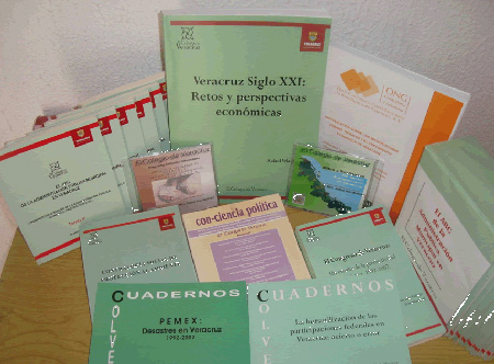 publicaciones